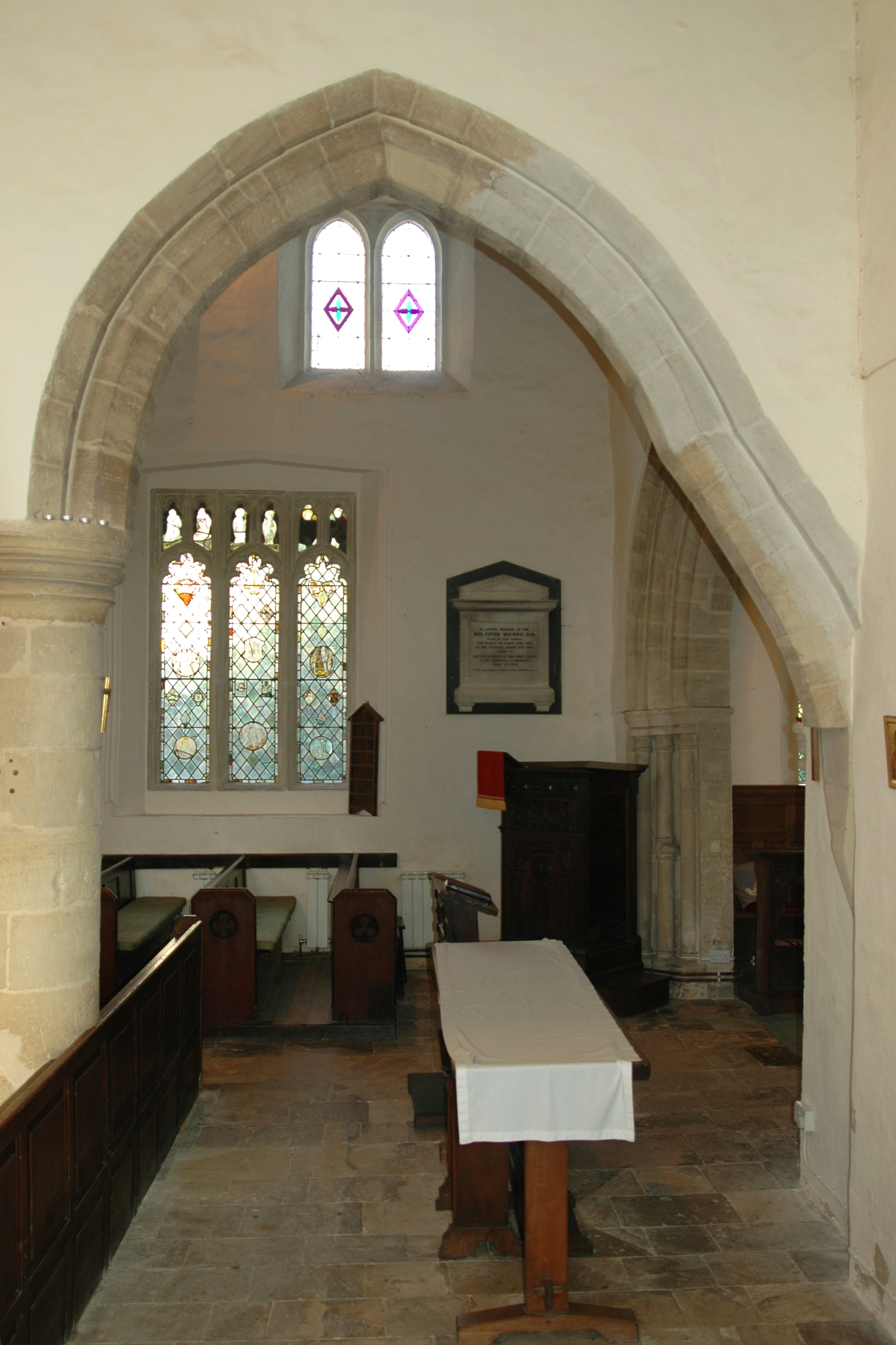 Irregular arch between nave and south aisle of the Church of England parish church of St Bartholomew, Yarnton, Oxfordshire